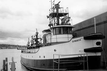 Duwamish Fireboat at Hiram Chittenden Locks, Seattle, WA. Both the boat itself and the locks are on the National Register of Historic Places.